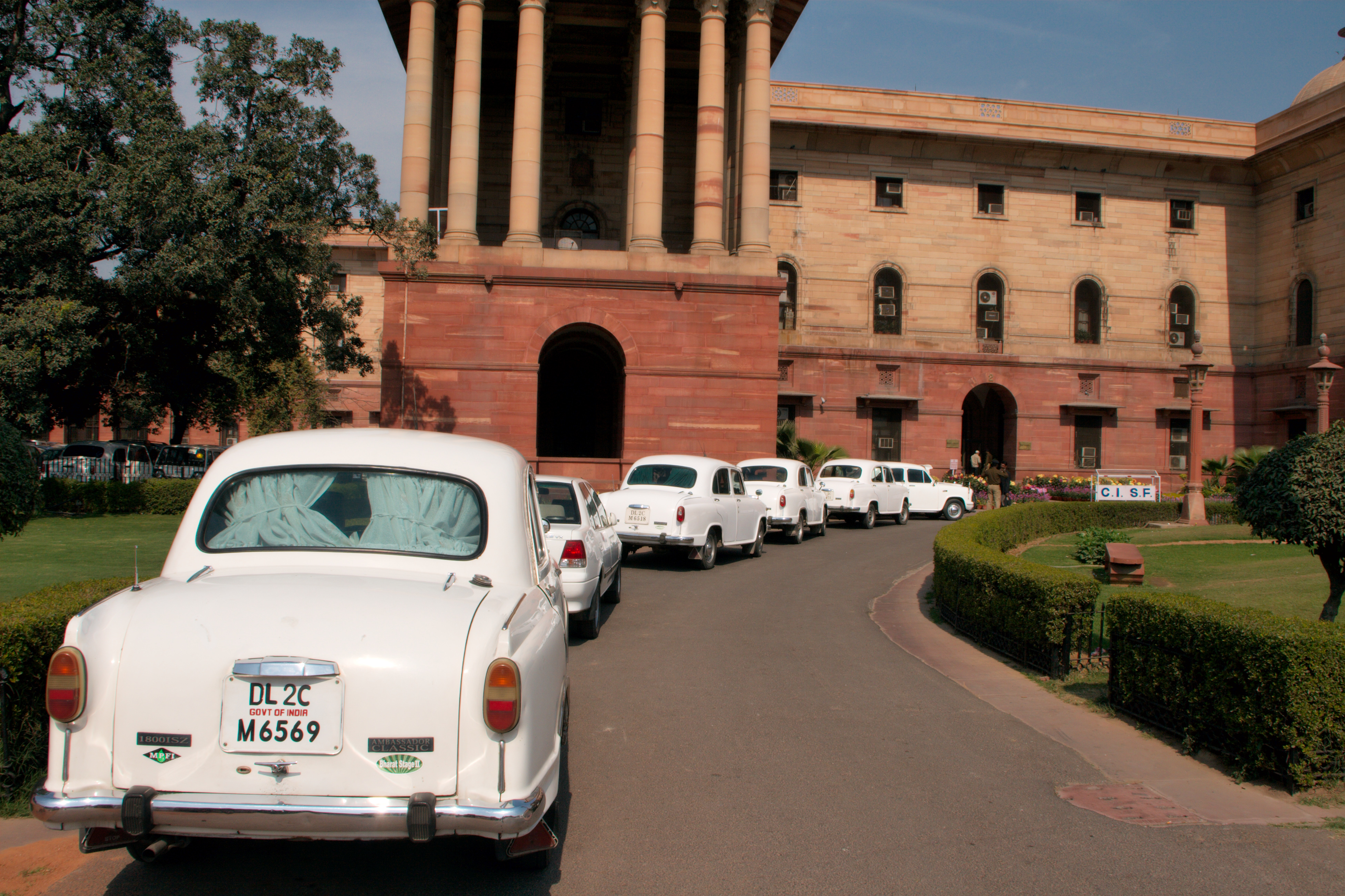 Official Hindustan Ambassador cars waiting in line outside North Block, Secretariat Building, New Delhi They seemed to have a thing about white old Ambassador cars here.. This part of New Delhi that was built by the british is filled with parliament buildings and wide avenues. The Rajpath is similar to the Champs Elysée in Paris as it's a wide avenue ending with a Arc de Triomphe at the end. Check out my travelblog at